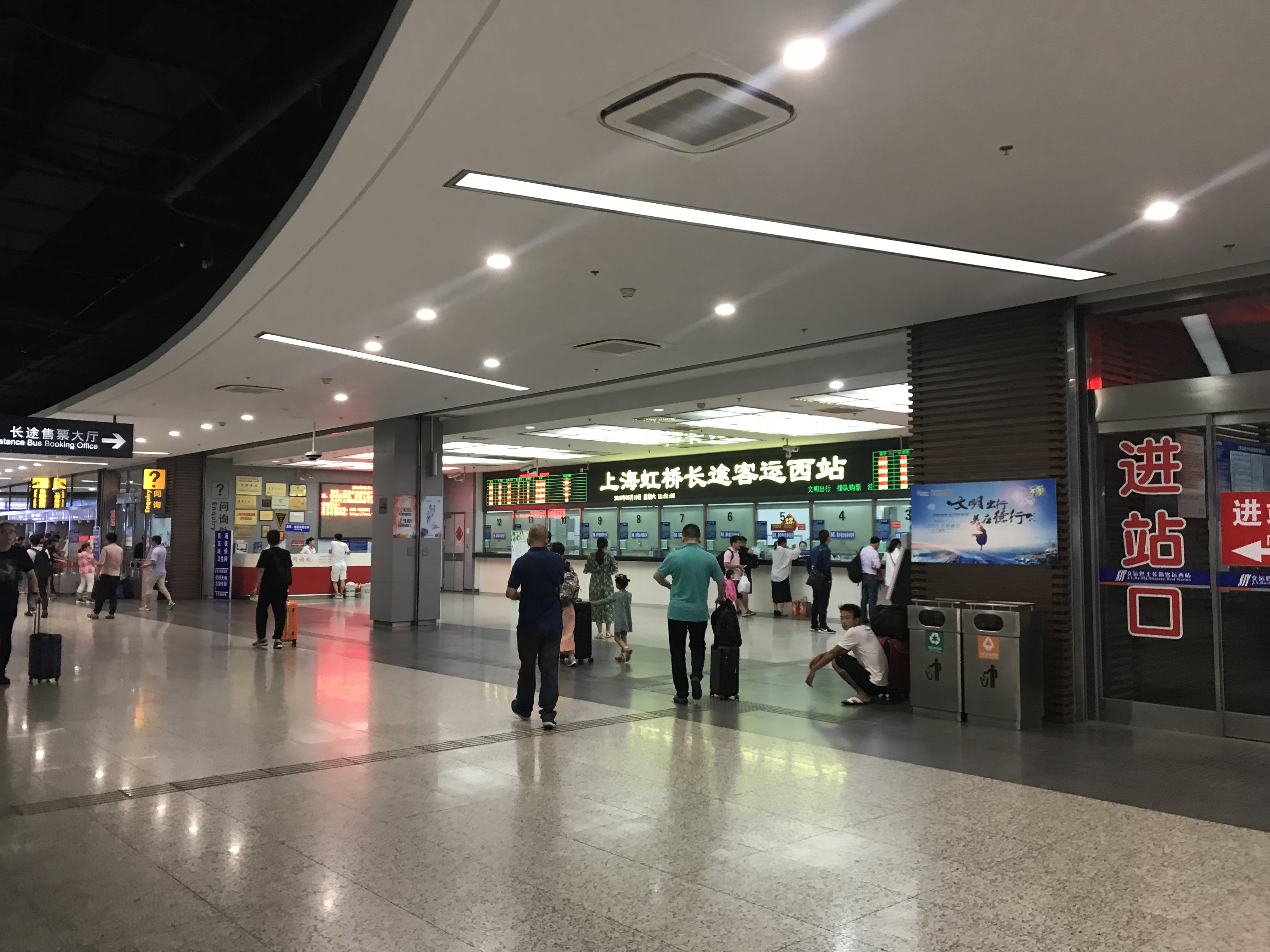 201805 Shanghai Hongqiao Coach Station